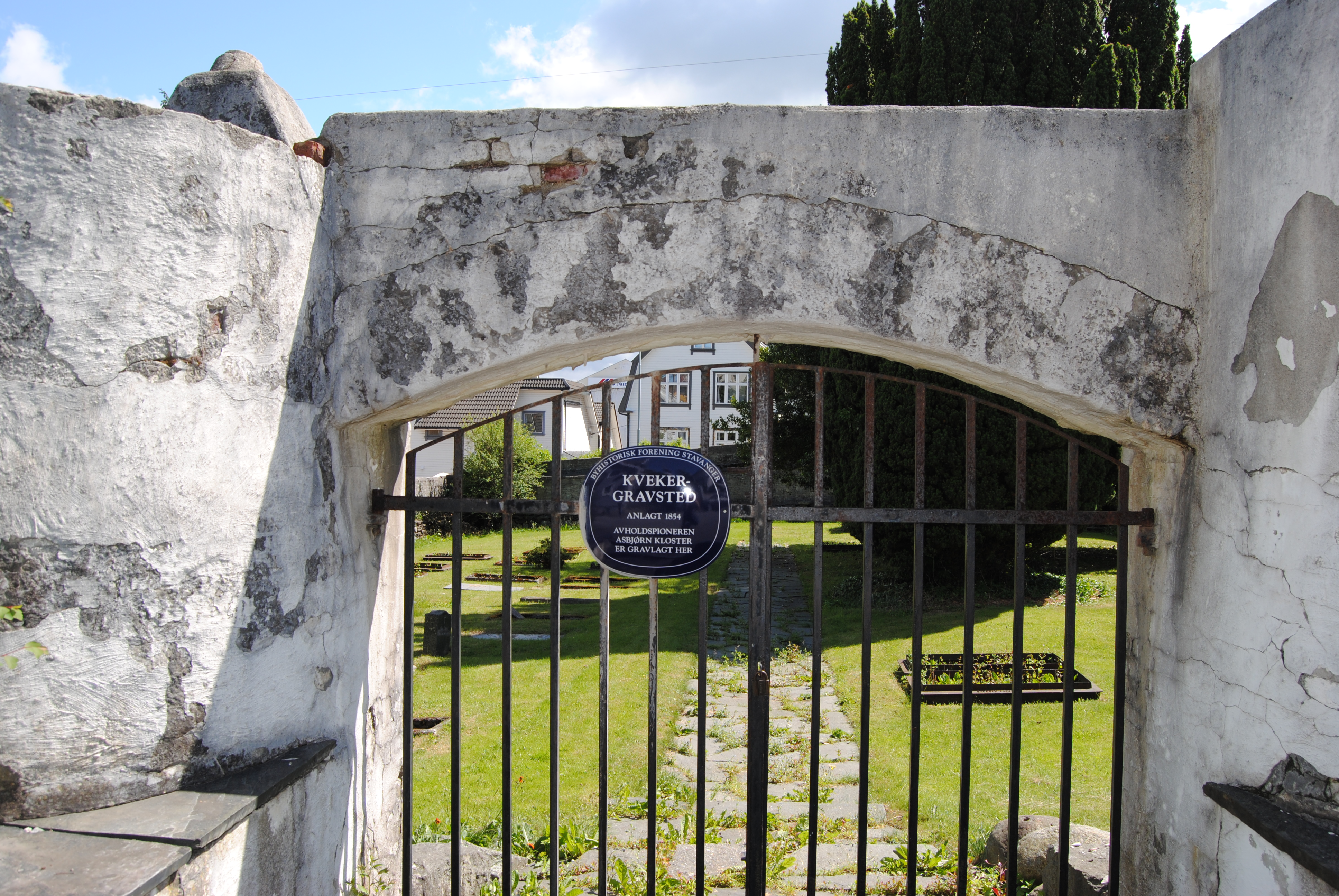 The entrance gate at the new quaker cemetary in Stavanger, Norway